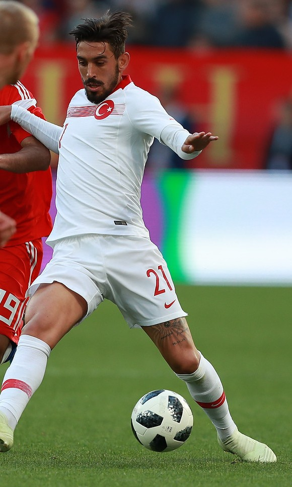 İrfan Kahveci